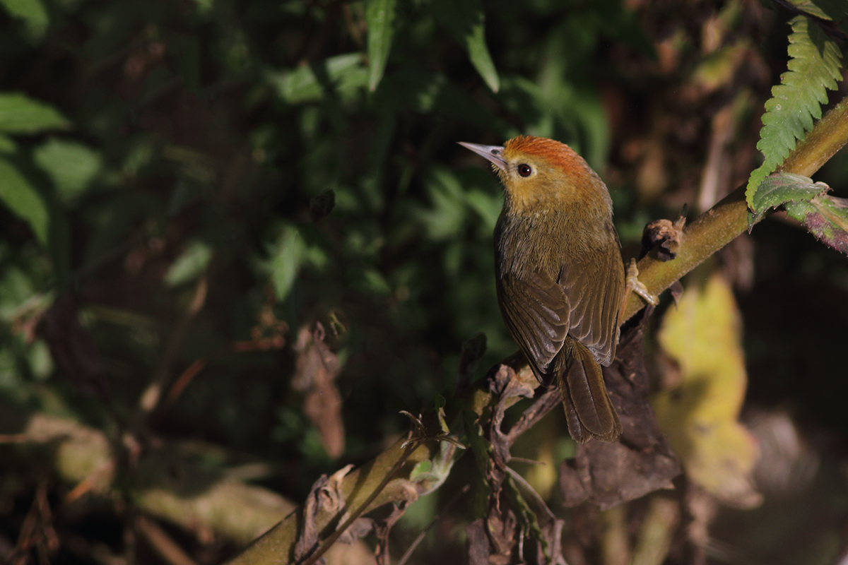 Rufous-capped Babbler Khonoma Nagaland February 2019.